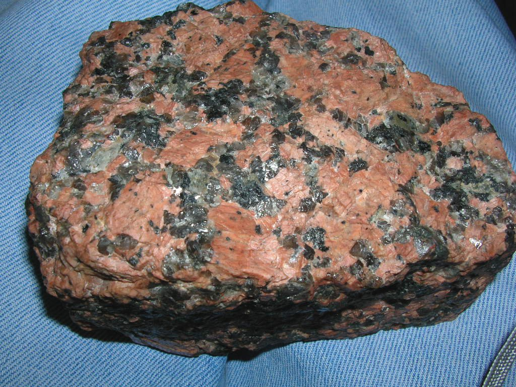 Alkali feldspar granite. Holocrystalline texture, coarse-grained. Great amounts of potassium feldspar (orthoclase, pink-reddish in colour); the remaining minerals are quartz (vitreous, shining), plagioclase (grayish) and biotite (black). This sample comes from an undefined Scandinavian location.